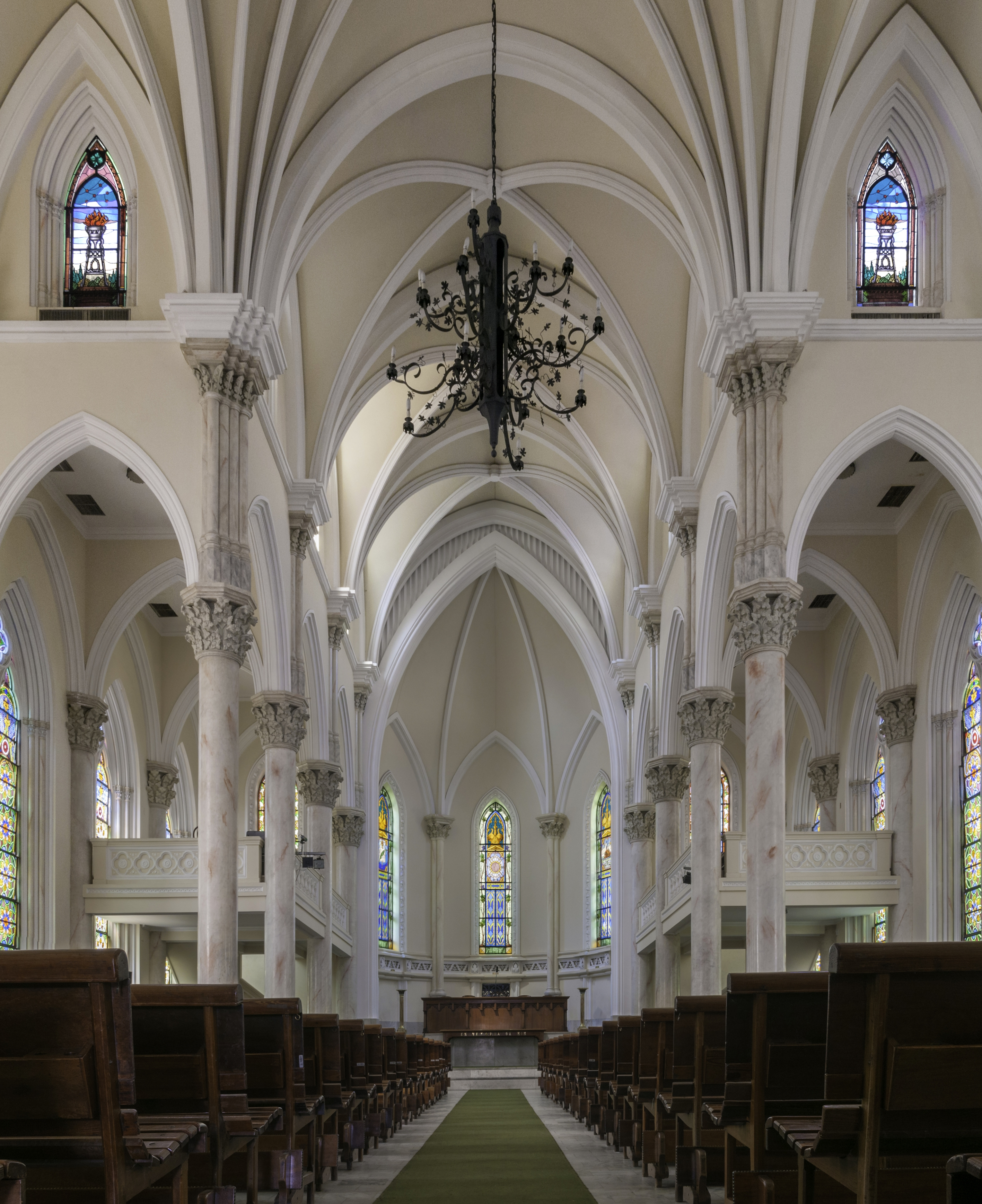 Presbyterian Cathedral of Rio of Janeiro